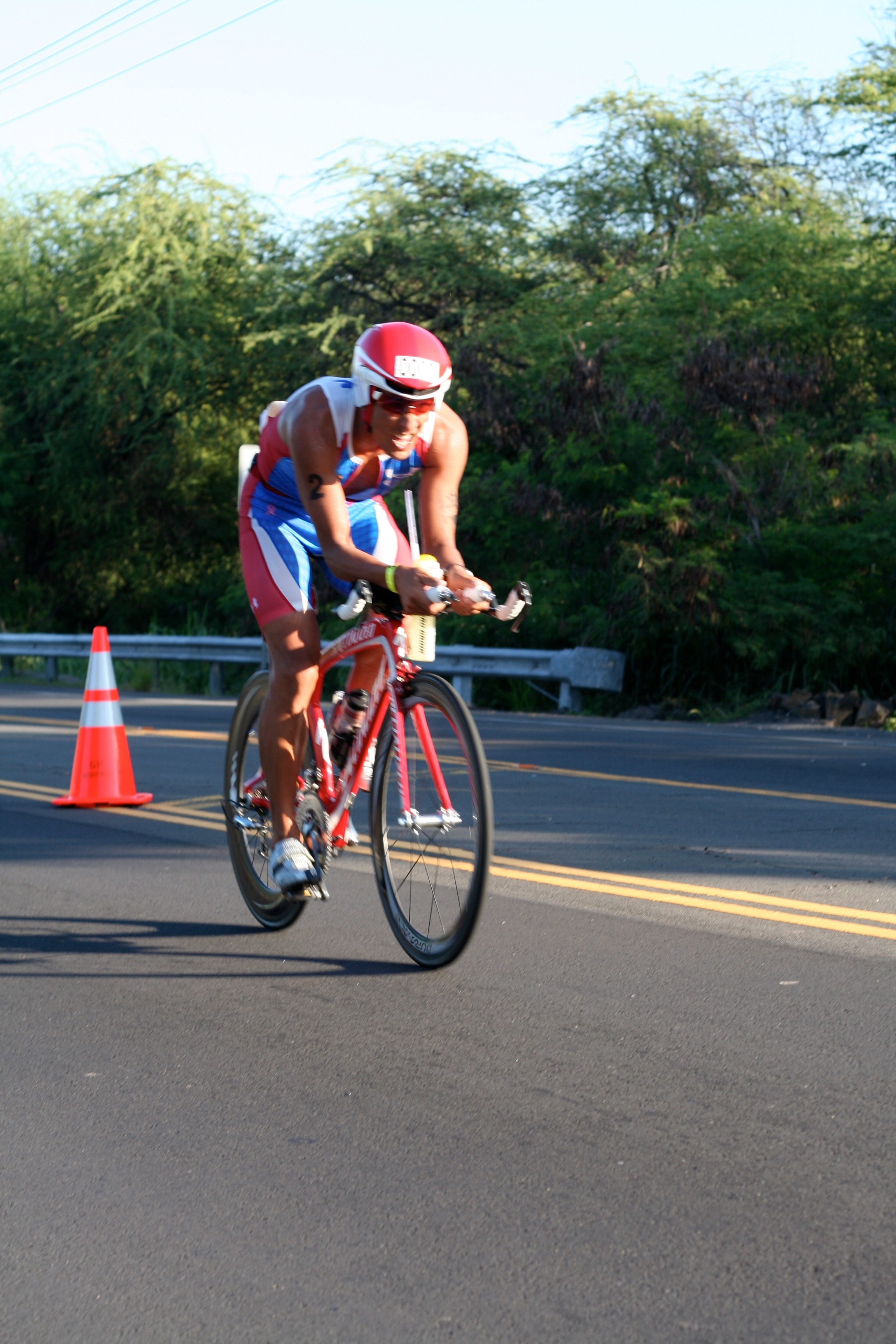 Chris McCormack @ Ironman Hawaii 2007